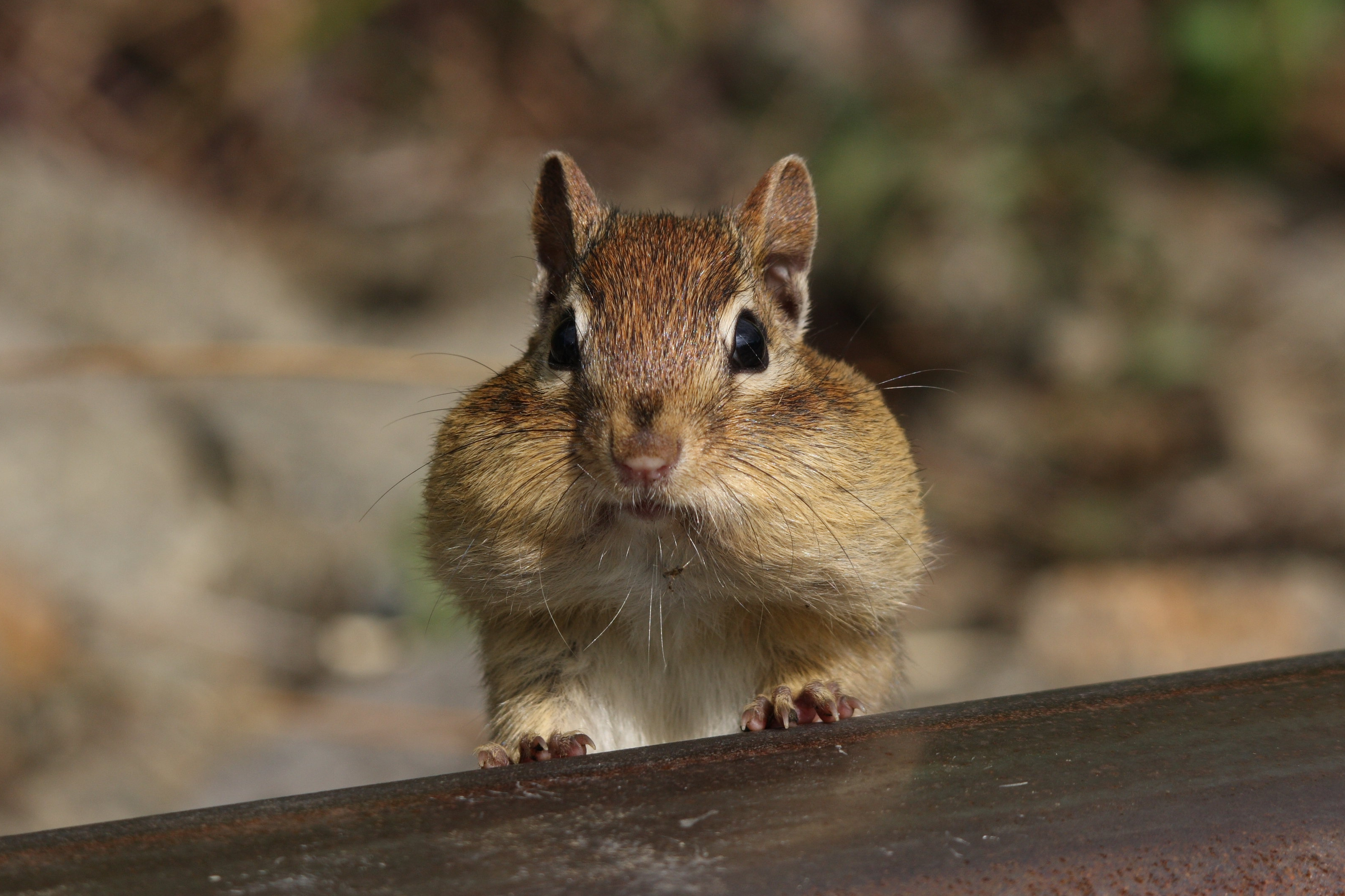 Eastern Chipmunk with cheeks filled of food supply, Cap Tourmente National Wildlife Area, Quebec, Canada.